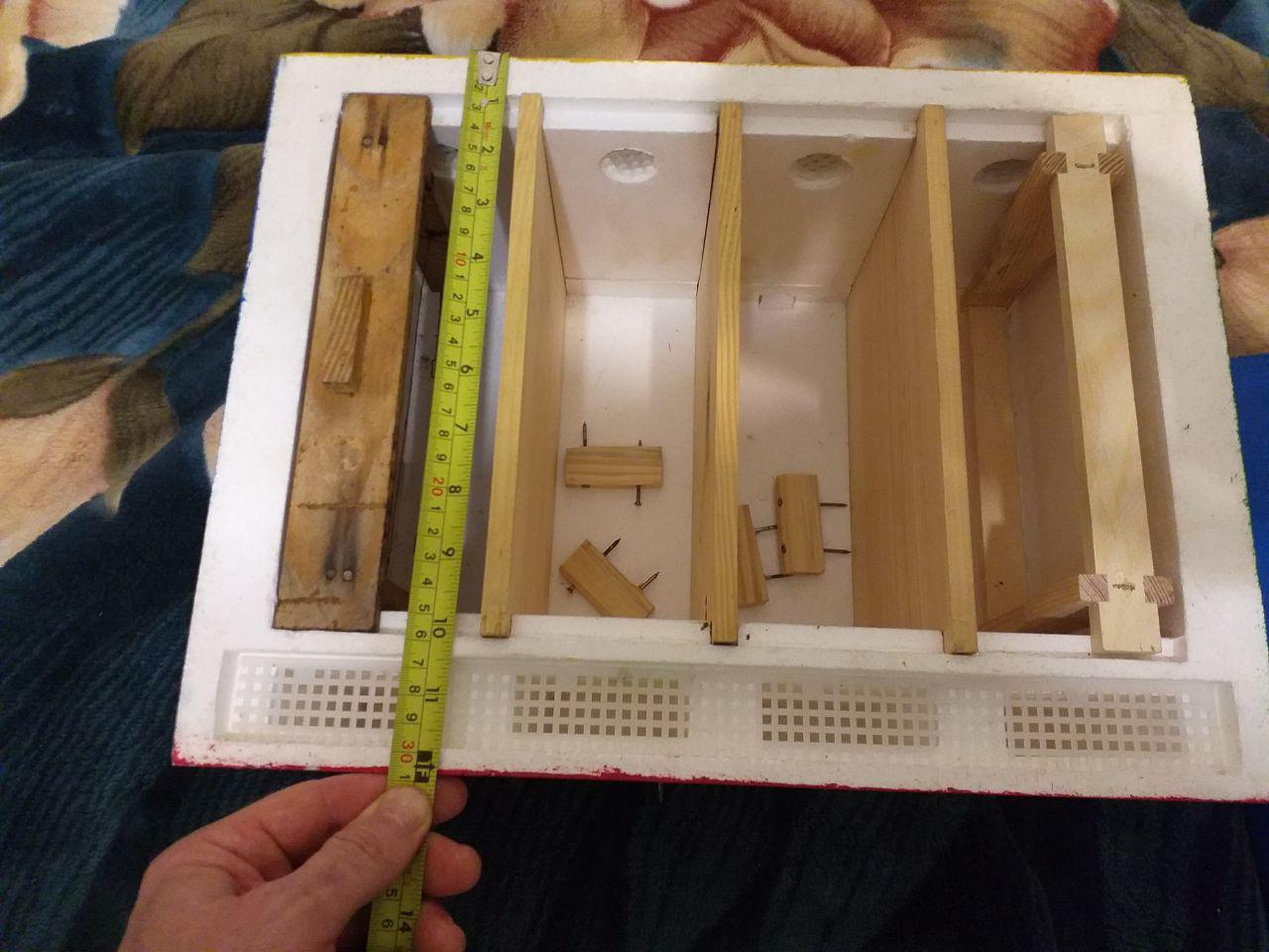 Нуклеус 4 місний, ширина